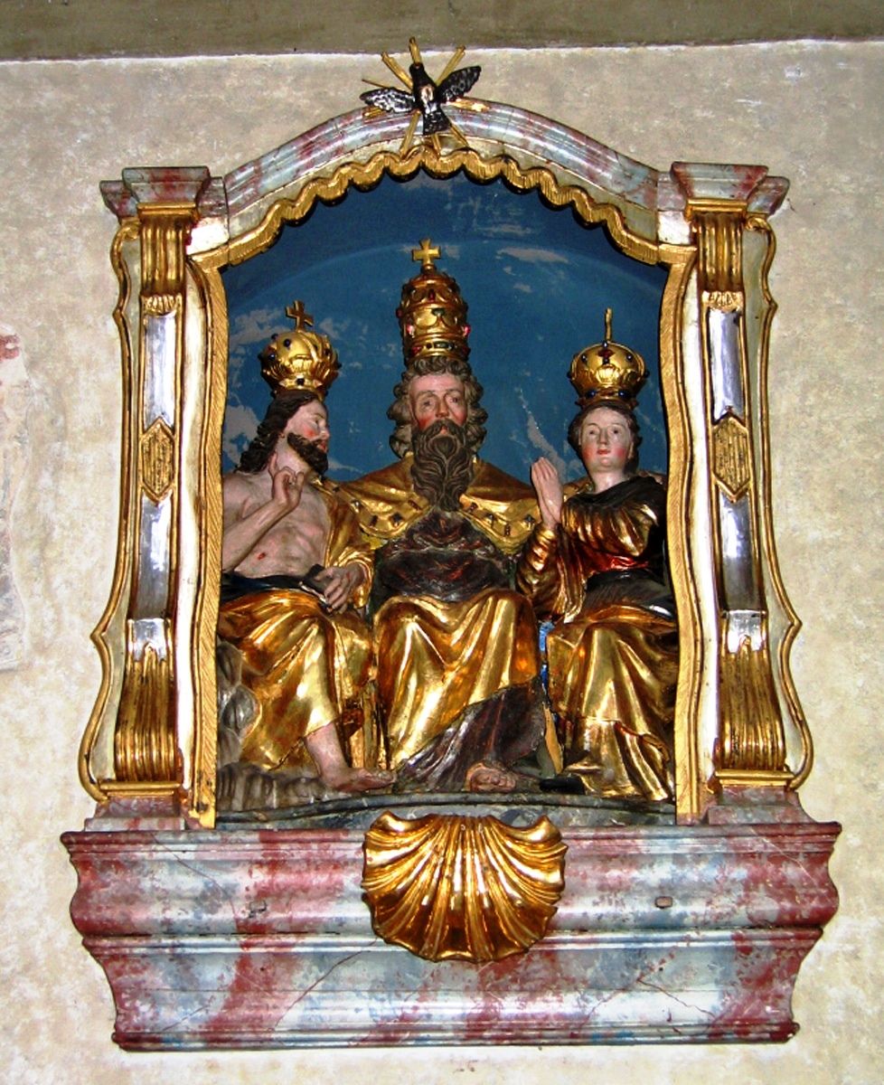 Baroque Trinity Group Trofaiach